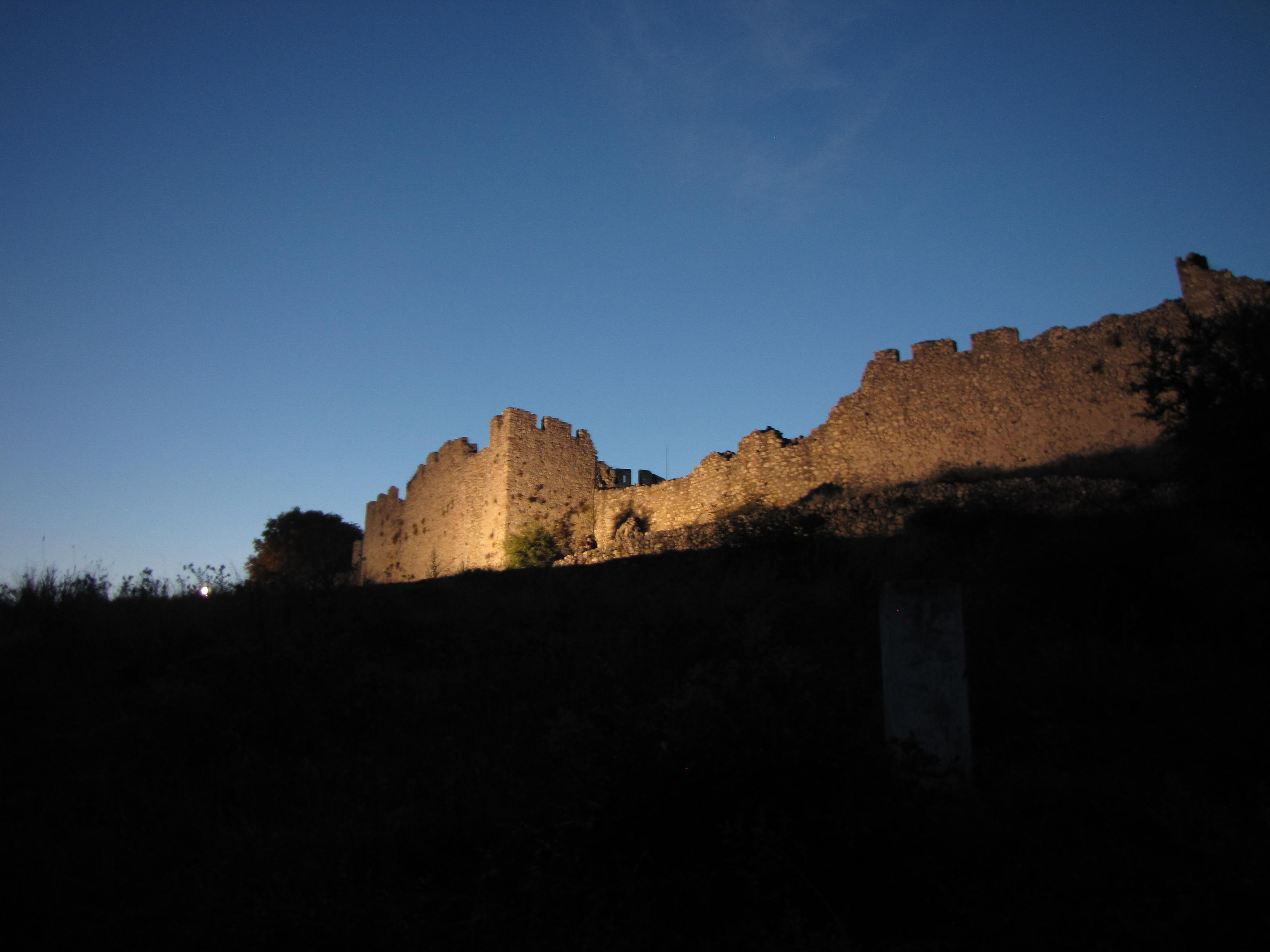 Platamonas Castle at night